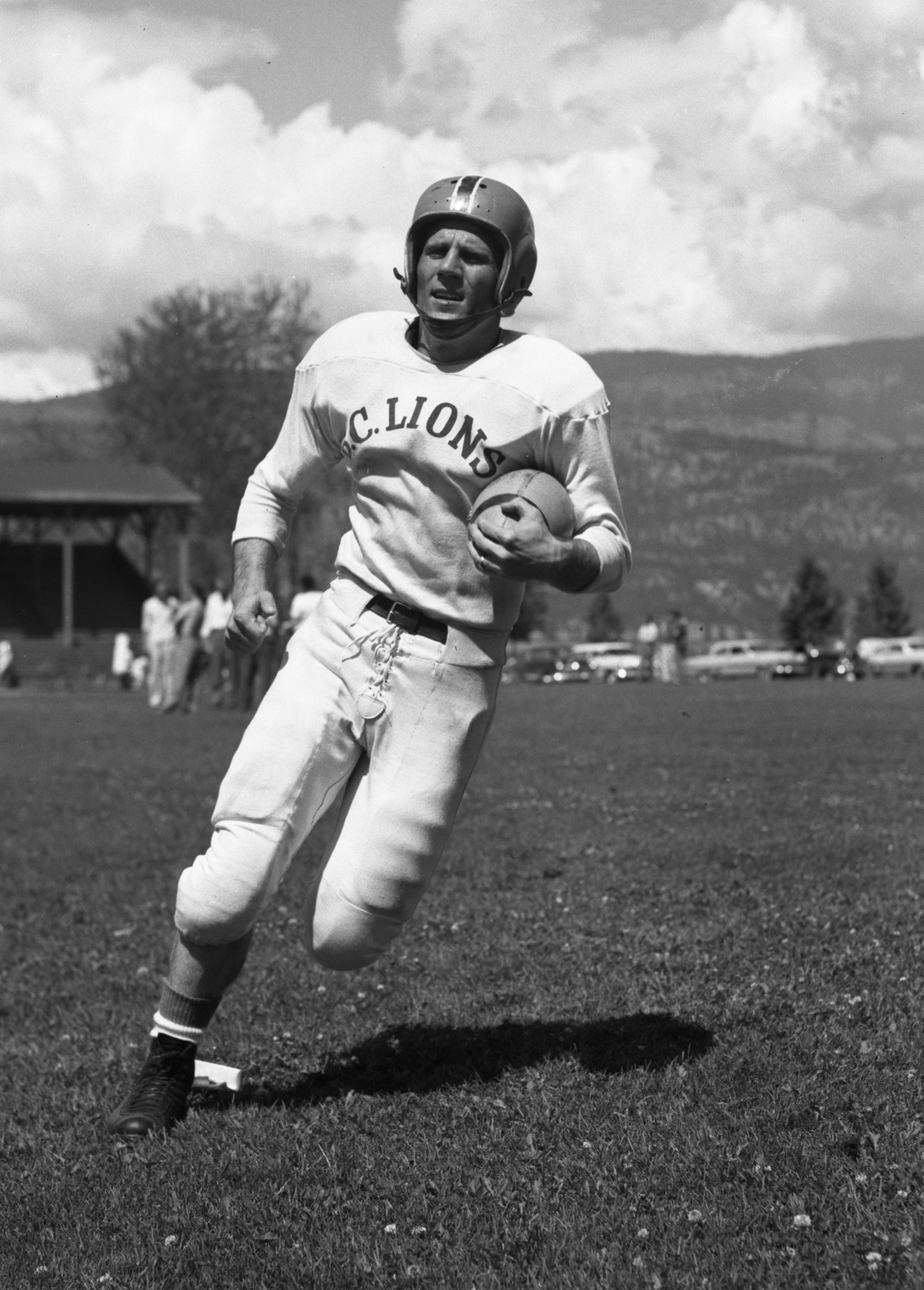 Gil Bartosh, BC Lions VPL Accession Number: 59450 Date: 1958 Photographer/Studio: Province Newspaper Content: football field Topic: Portrait Football players Sports Person: Bartosh, Gilbert C., 1930- Organization: B.C. Lions Football Club Location: British Columbia - Vancouver More information on our historical photograph collection